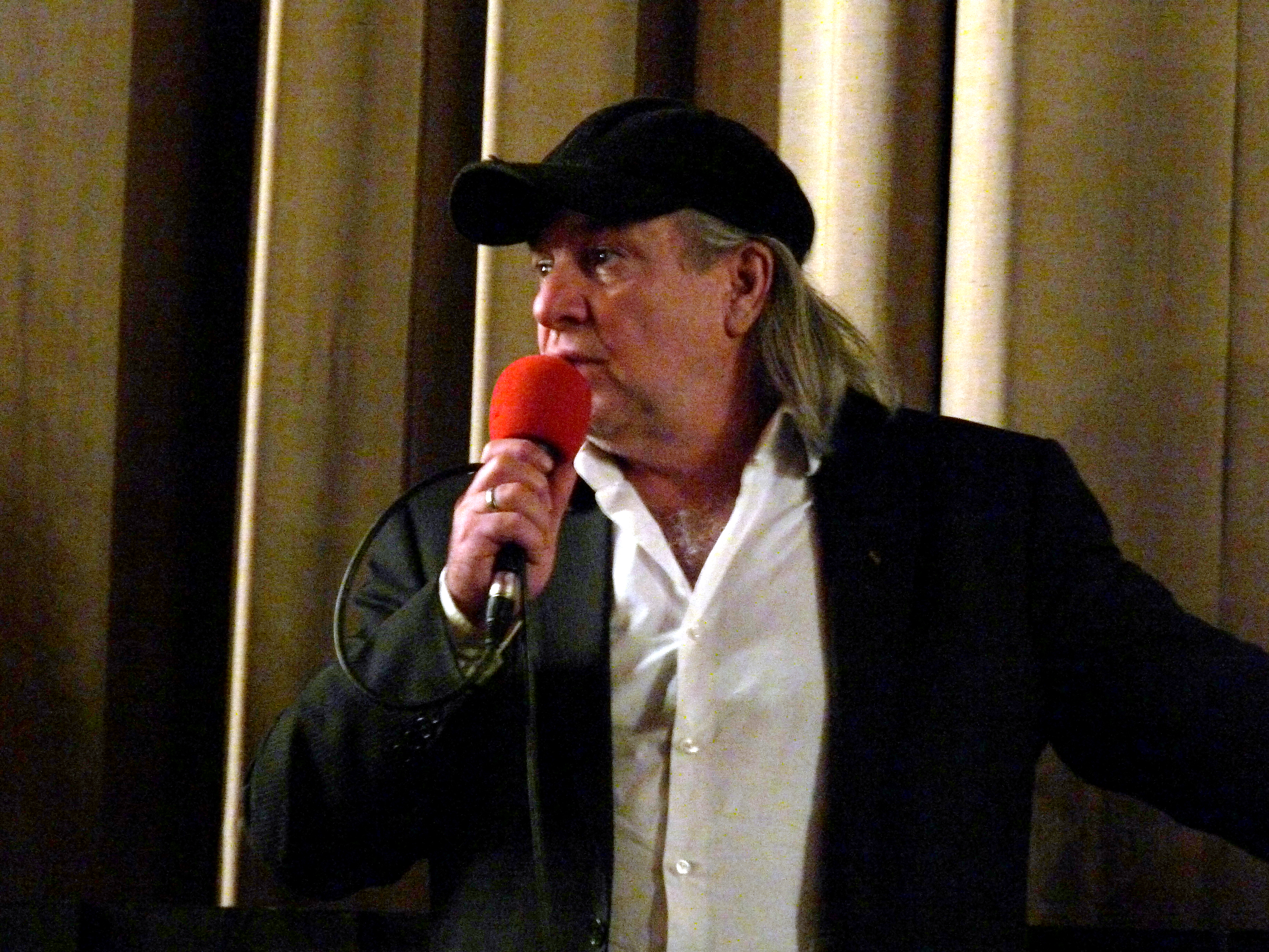 Pepe Danquart at the premiere of Lauf, Junge, lauf in Schloßtheater at Münster, Germany